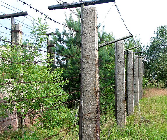 This foto is from Dyleň